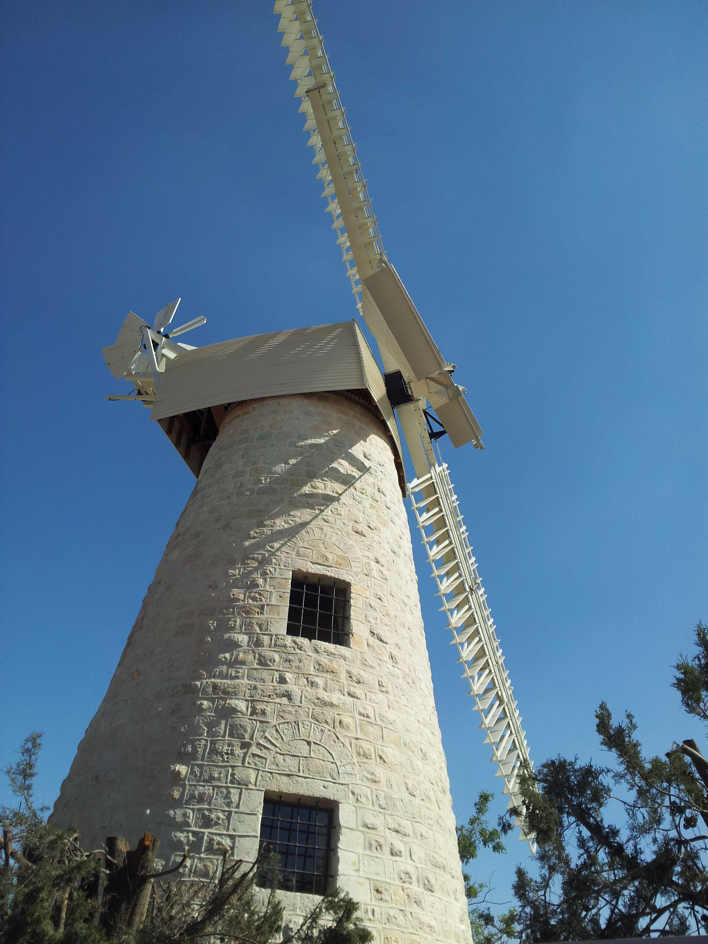 Moses Montefiore Windmill new version (2012)